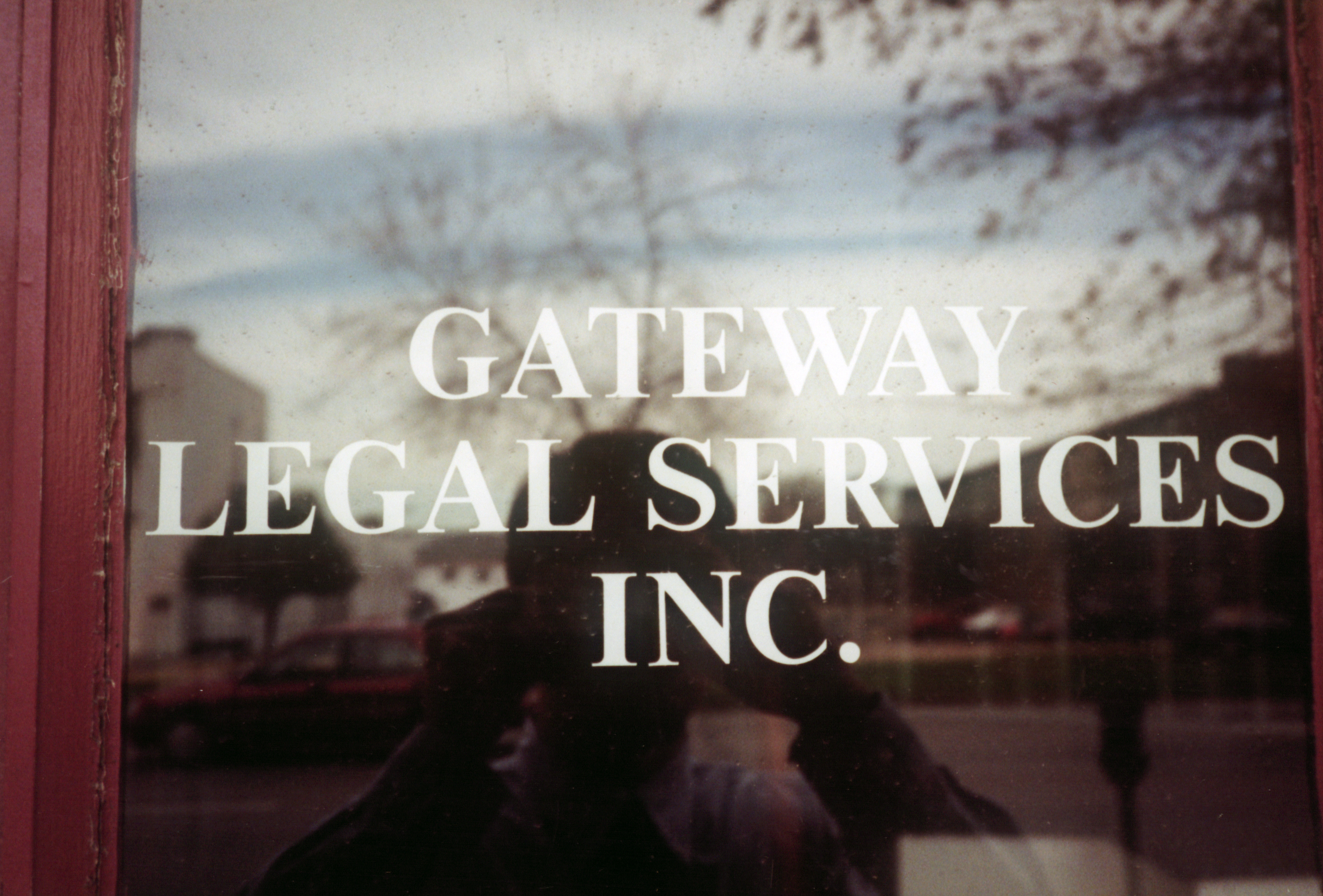 Gateway Legal Services front door